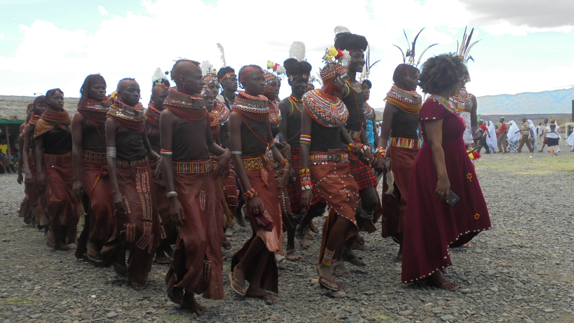 Turkana Community Girls in Marasbit County in Kenya doing a catwalk during a cultural festival in 2017. This is an image of "African people at work" from Kenya